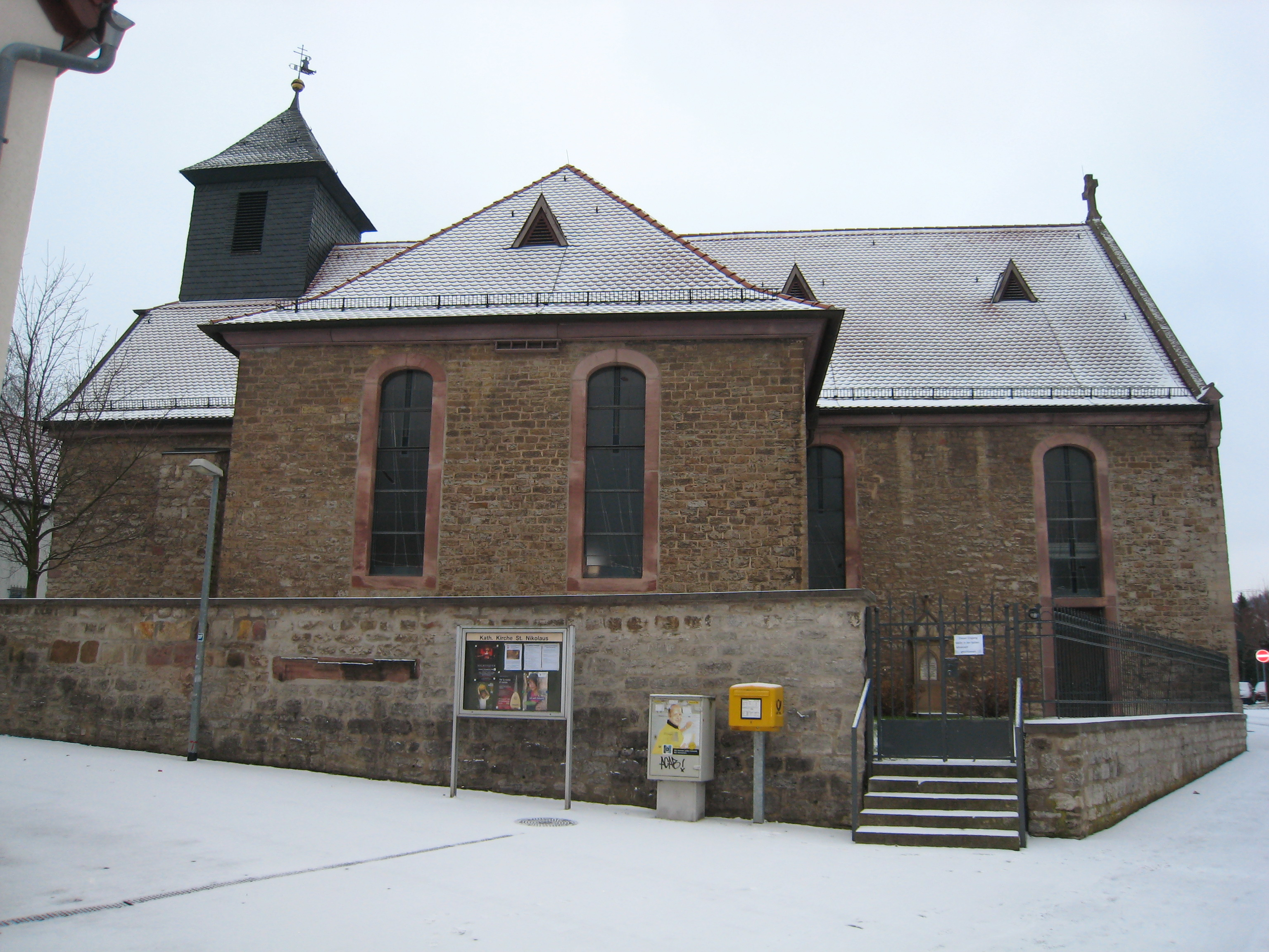 Saint Nicholas church Melchendorf, Erfurt, Schulzenweg